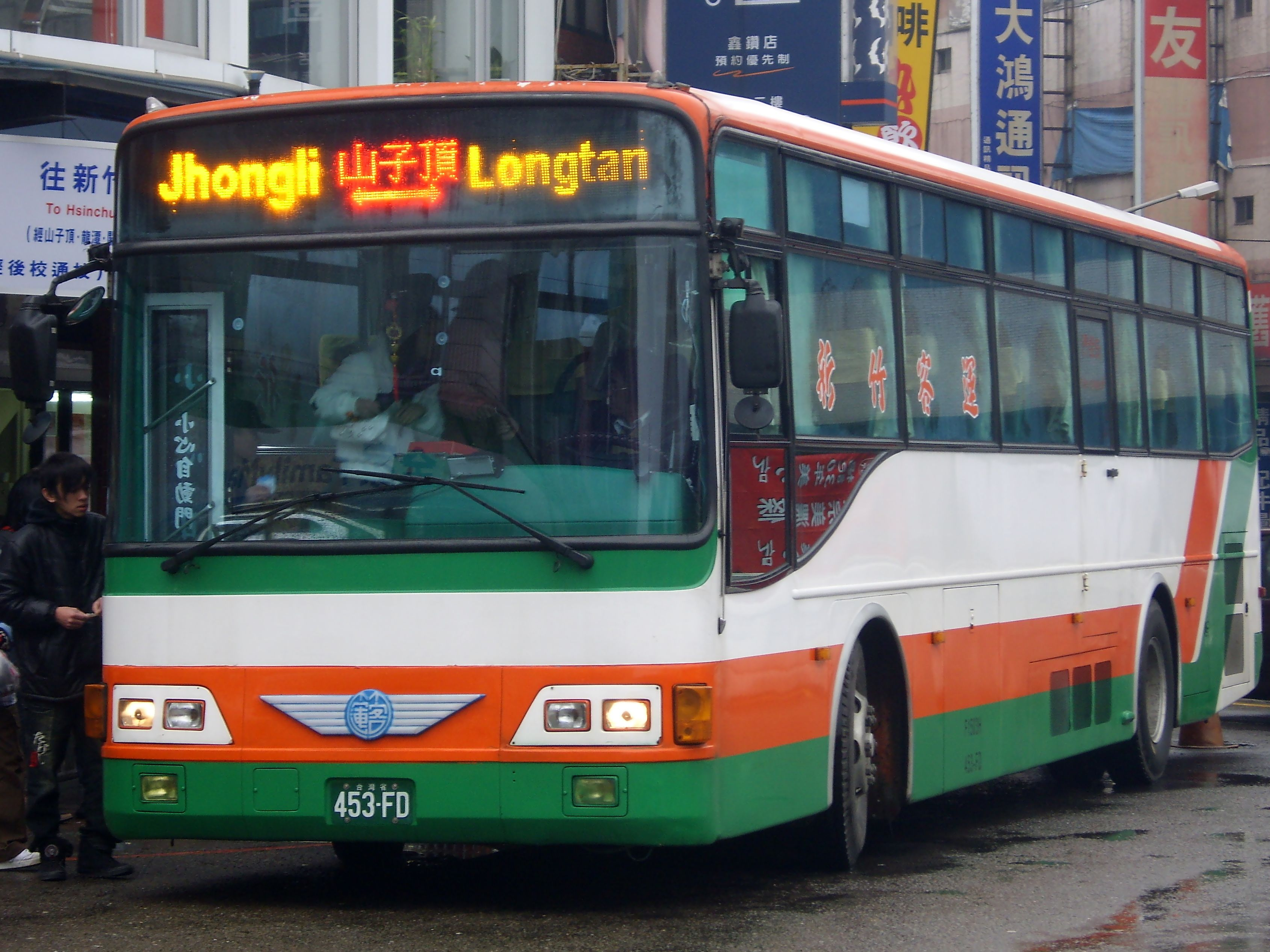 Hsinchu Bus - Hino ERK1JRL.